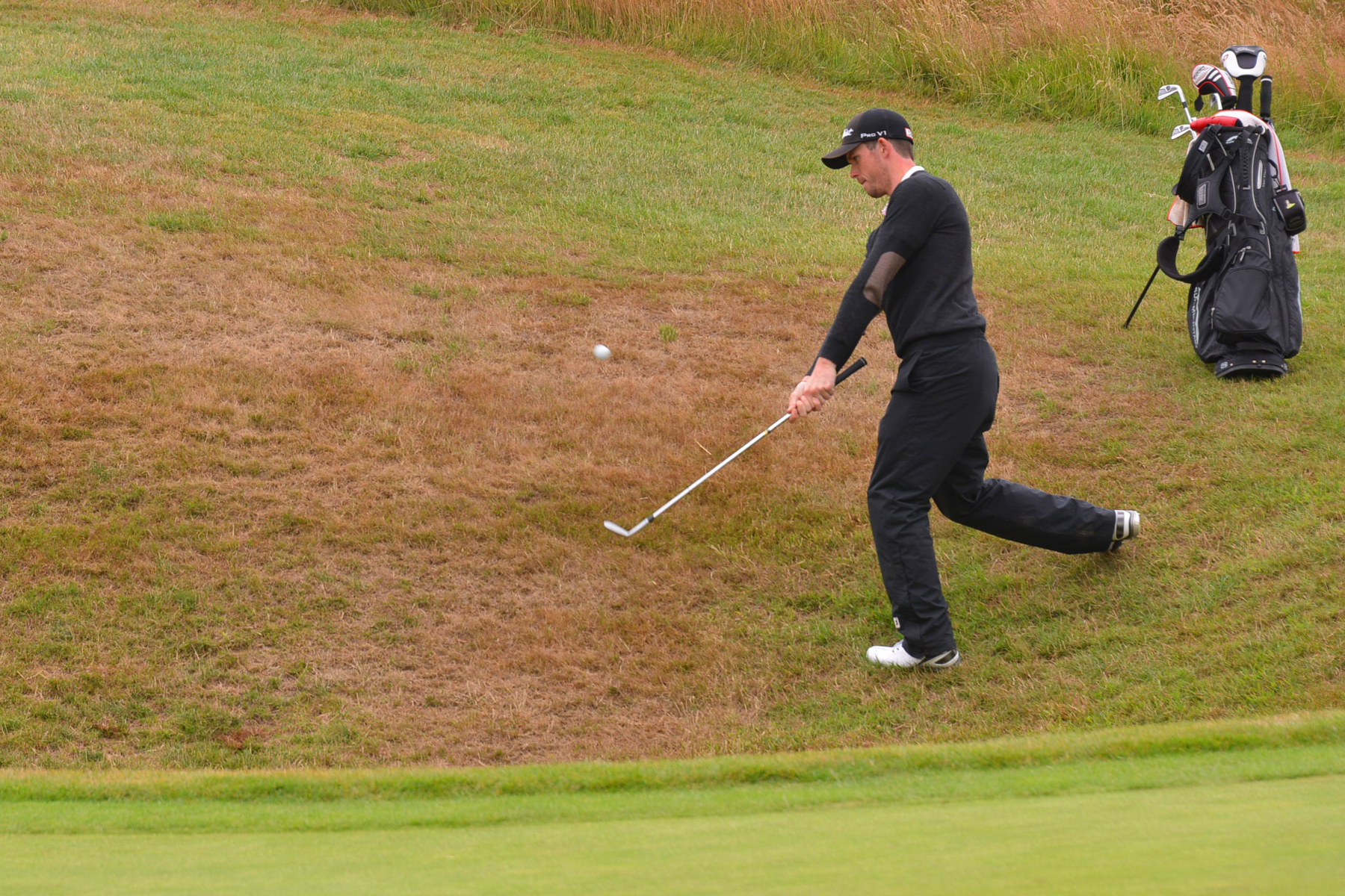 Callum Aird's tricky chip to the 18th at the St. Mellion Golf Club's 2013 Mens & Ladies Club Championships held over two days. Around 100 golfers played in the first medal round on the Kernow Course, the cut reduced that to 60 for the second medal round on the Nicklaus Course. The first day was pleasantly warm and dry but the second day was cooler, wetter and windier making the Nicklaus a stern test.